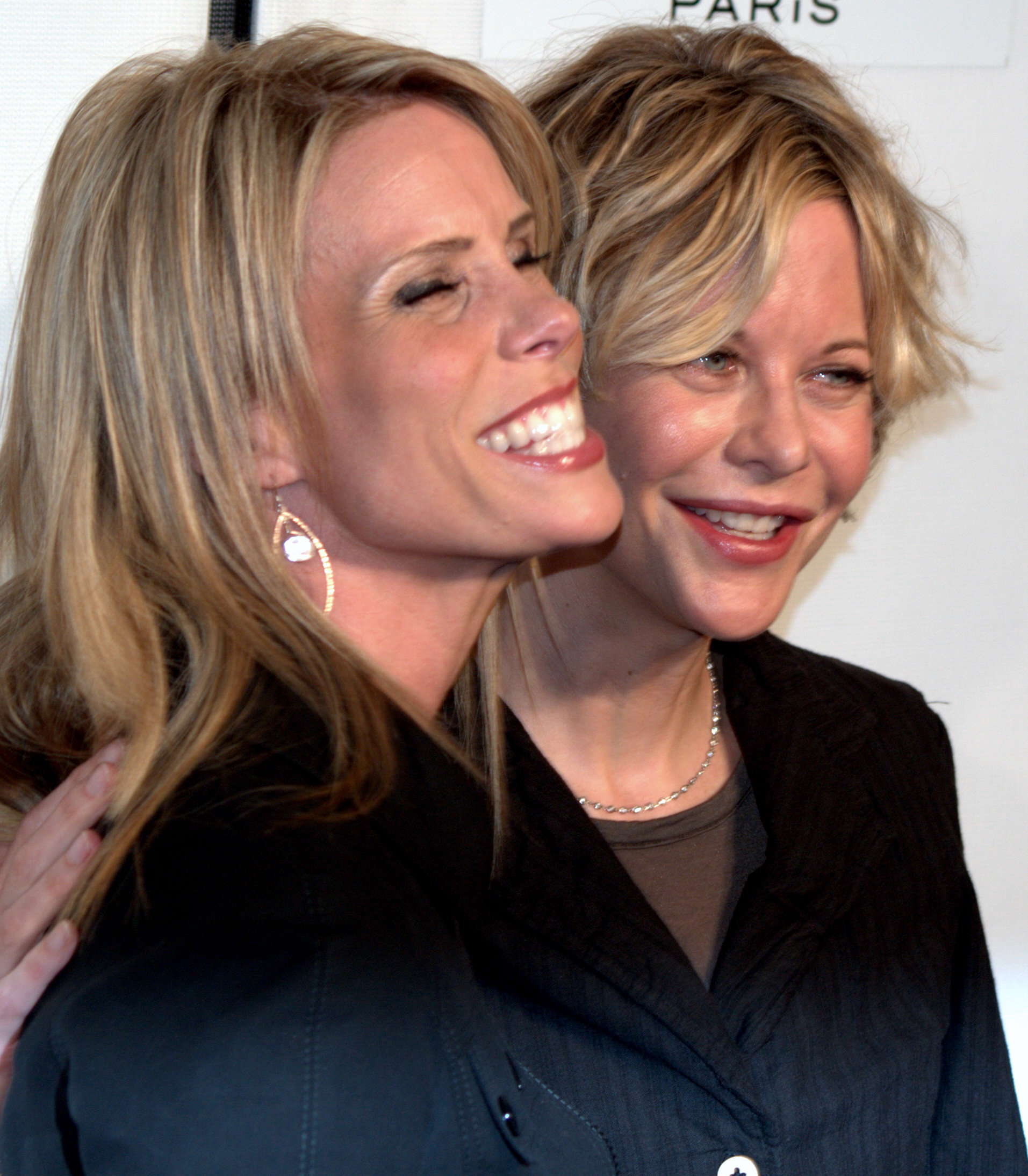 Cheryl Hines and Meg Ryan at the 2009 Tribeca Film Festival for the premiere of Serious Moonlight.